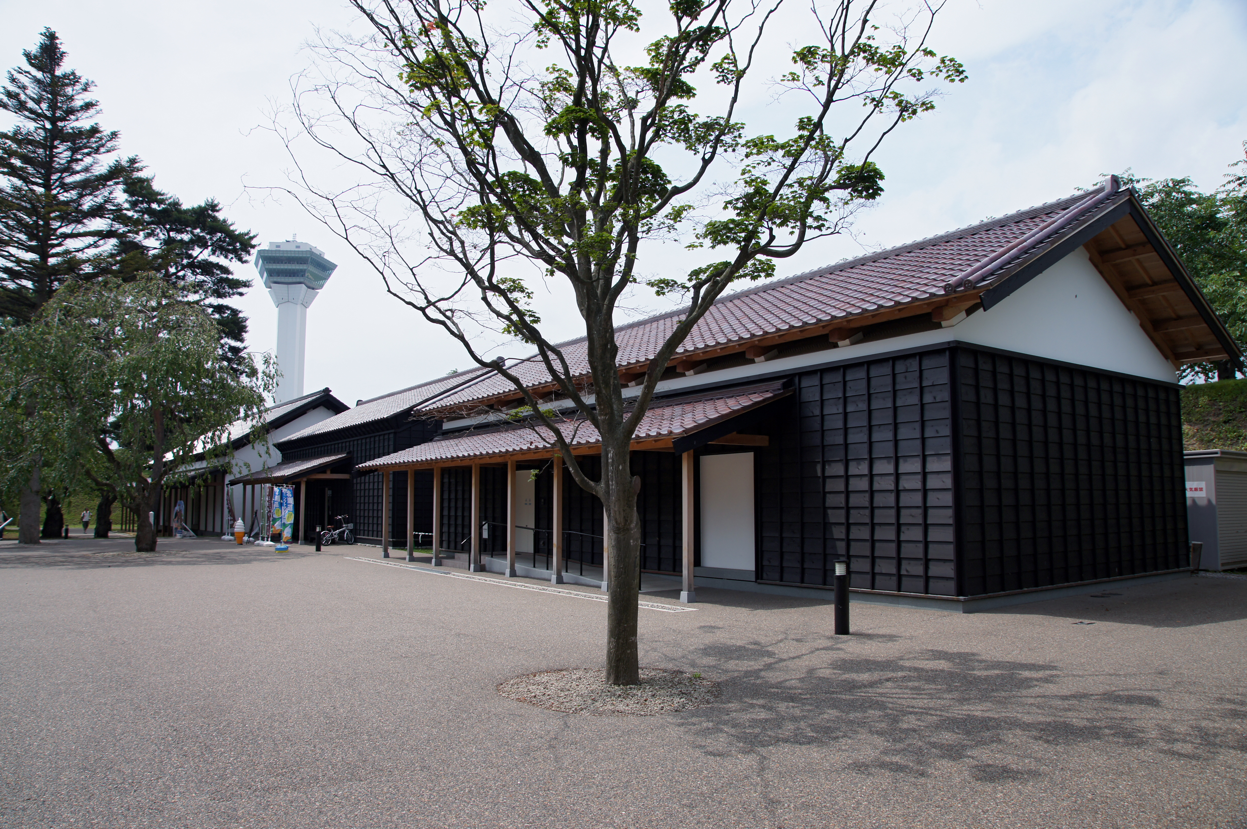 Hakodate Magistrate's Office in Hakodate, Hokkaido prefecture, Japan